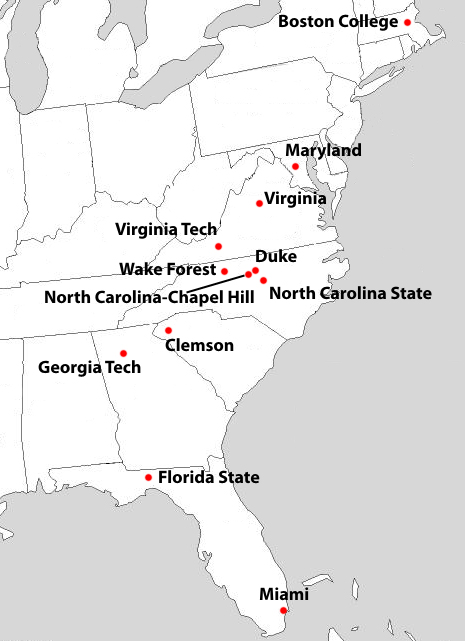 Map detailing the locations of the schools of the Atlantic Coast Conference. I created this in Photoshop. Entirely my own work, and I release all rights for anyone to do whatever they want with it.